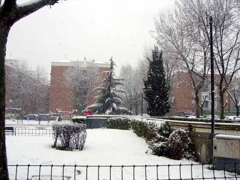 Day of snow in a park of Getafe (Community of Madrid, Spain). Author: Miguel303xm Date: February 23rd, 2005